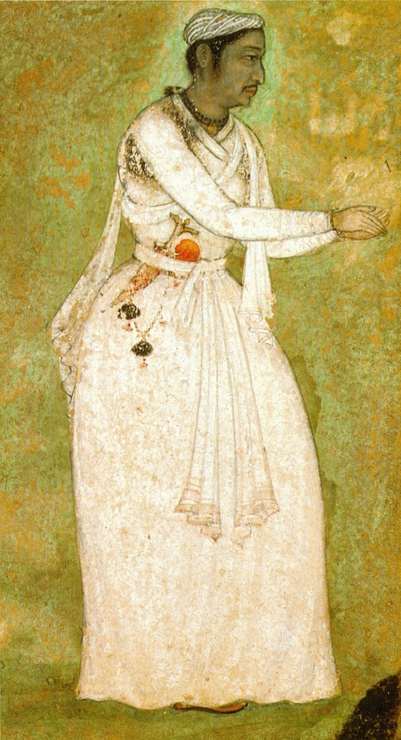 Tansen of Gwalior. (11.8x6.7cm) Mughal. 1585-90. National Museum, New Delhi. The true portrait of Tansen created during the reign of Emperor Akbar.